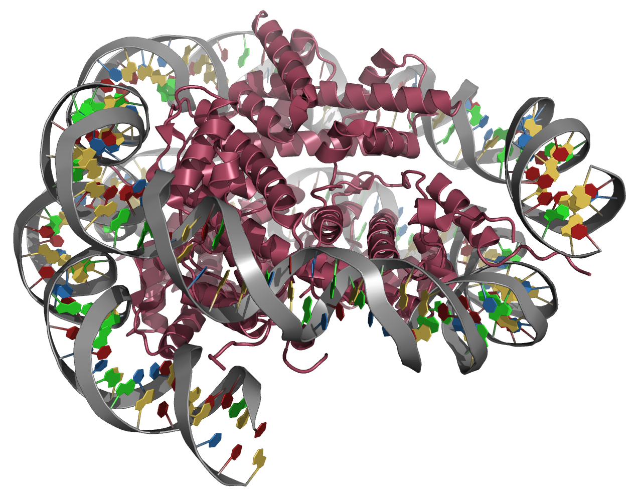 Structure of a nucleosome with histones from the fruit fly